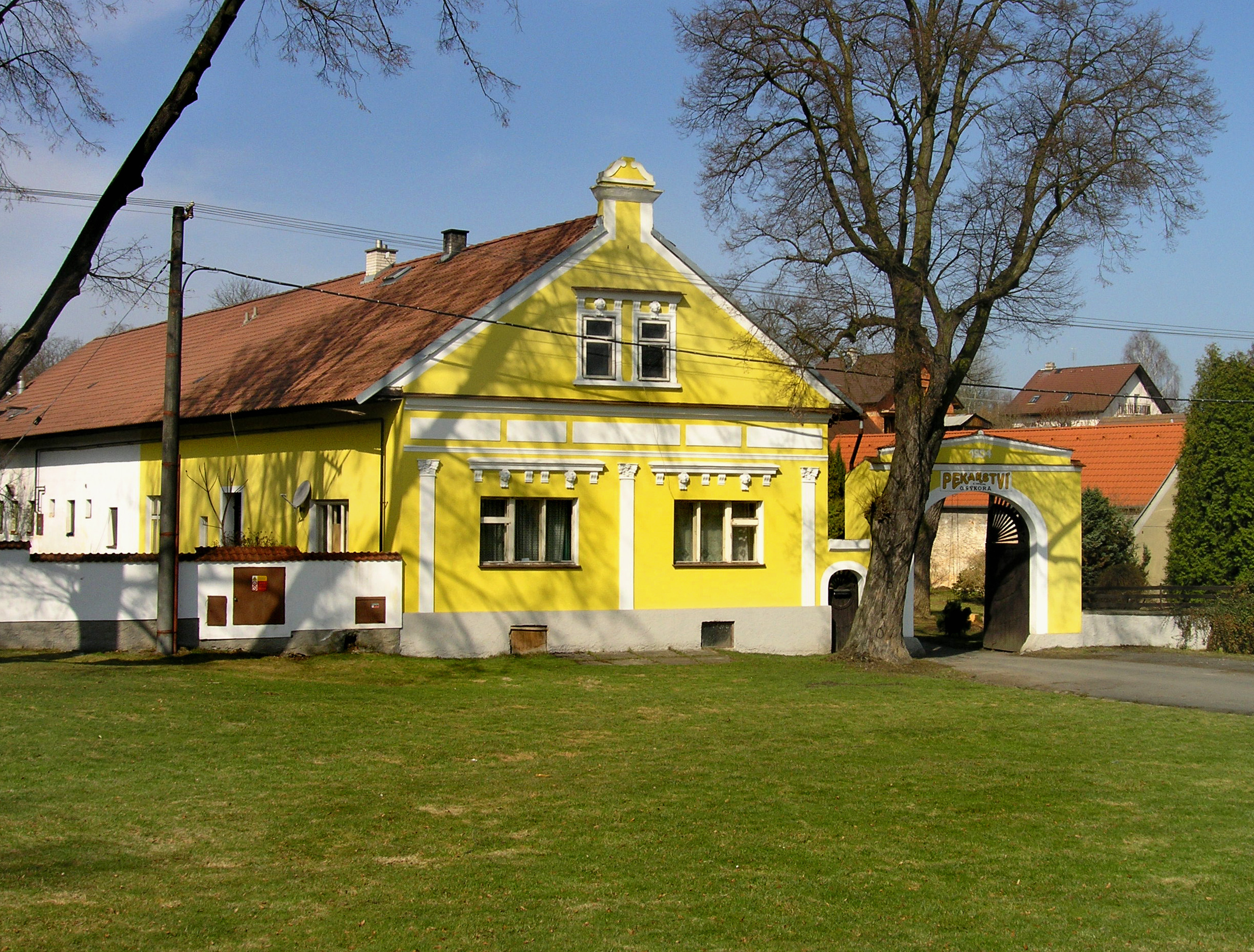 Old farm in Kyšice village, Czech Republic